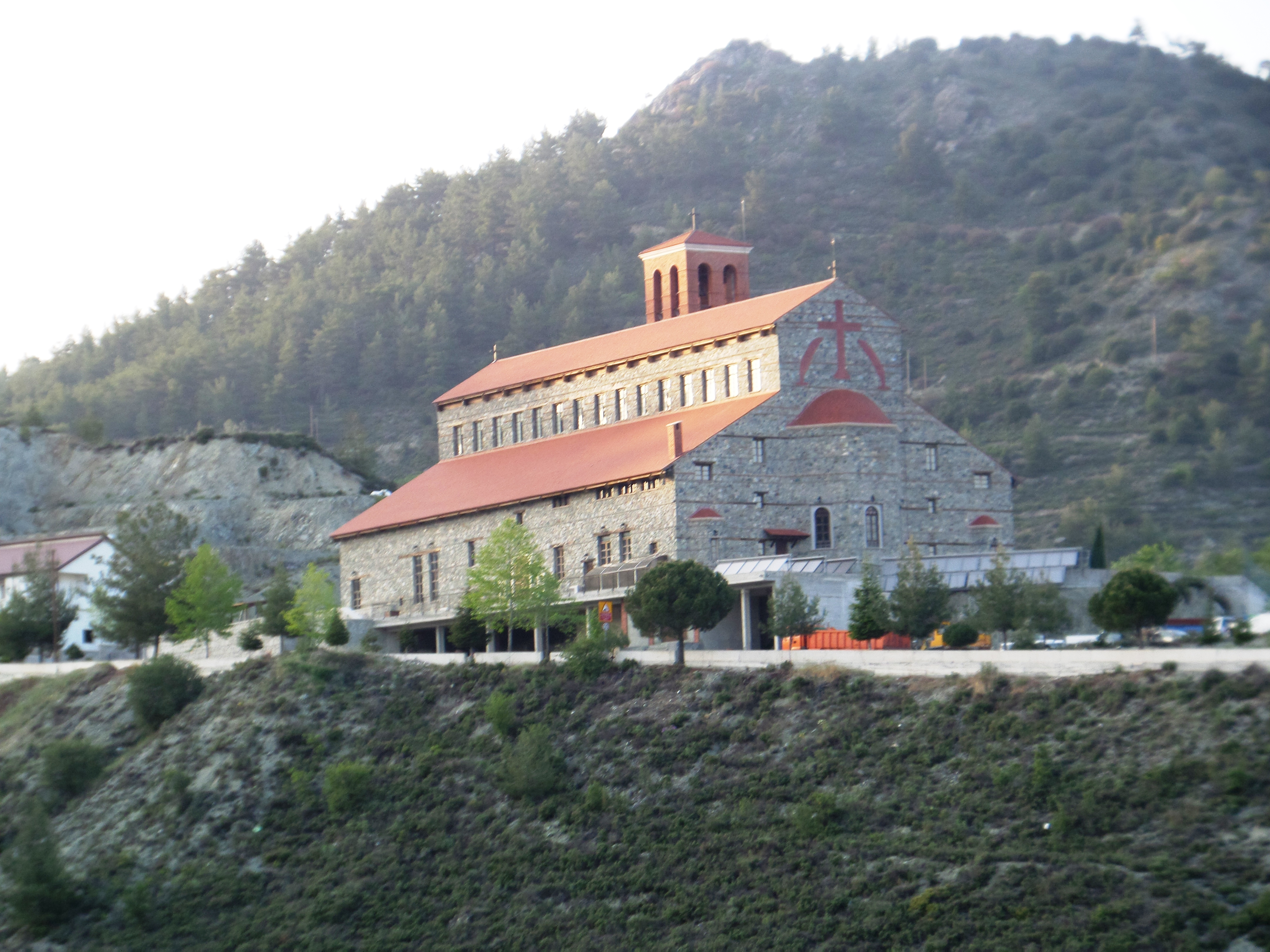 Saint Arsenios church at Kyperounta.